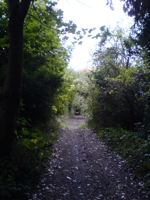 Stane Street, Roman Road. This square is intersected by Stane Street, a roman road. The straightness of Roman road building is obvious along this path.